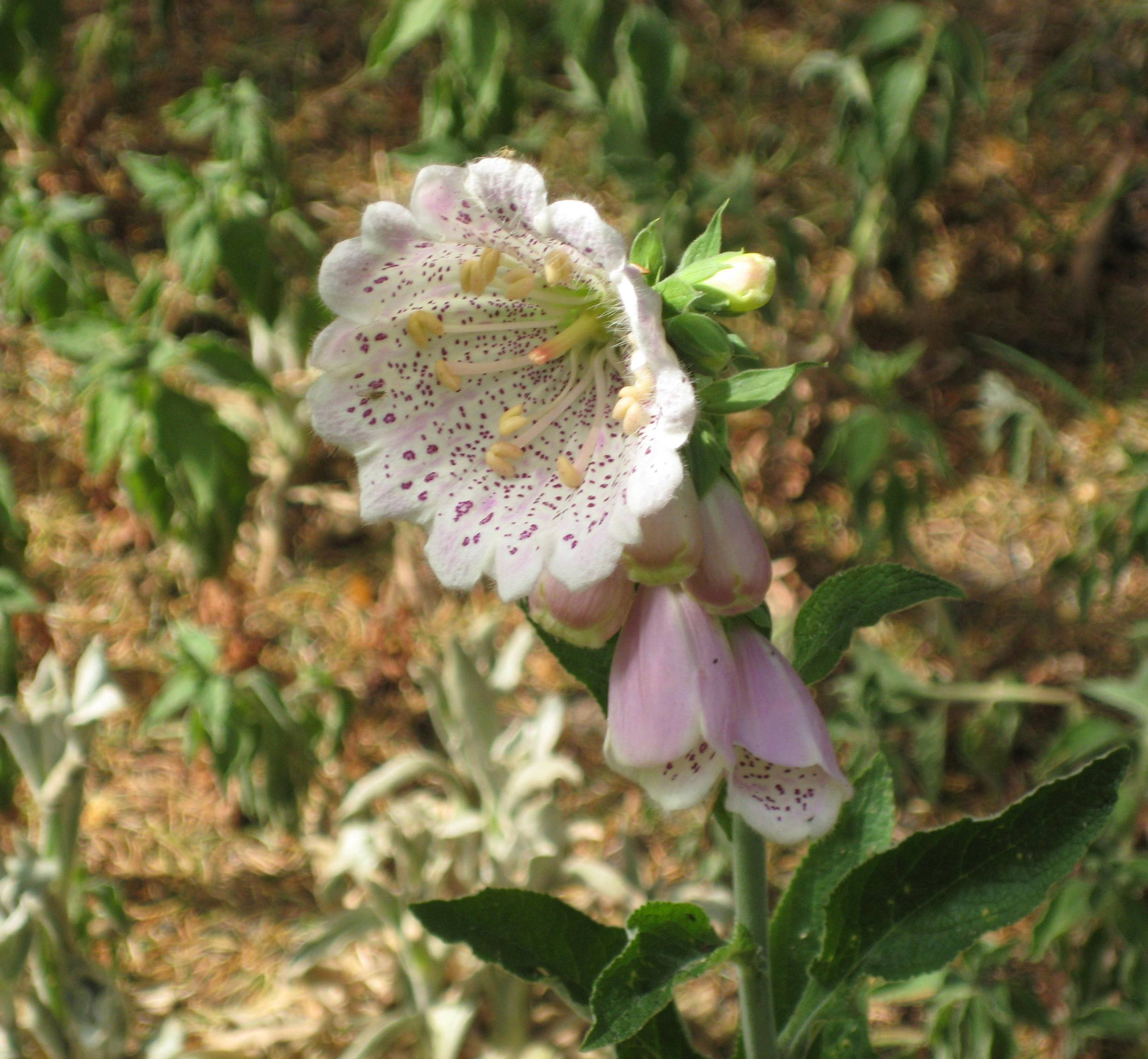 Digitalis purpurea